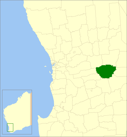 Description=Location of the Local Government Area in Western Australia